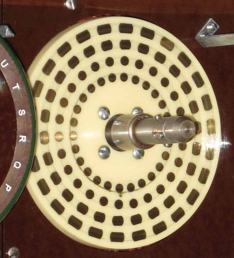 Contact plate for a drum of a Turing bombe